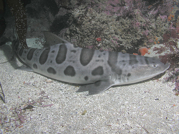 Leopard Shark, Pt. Lobos, Carmel, California.